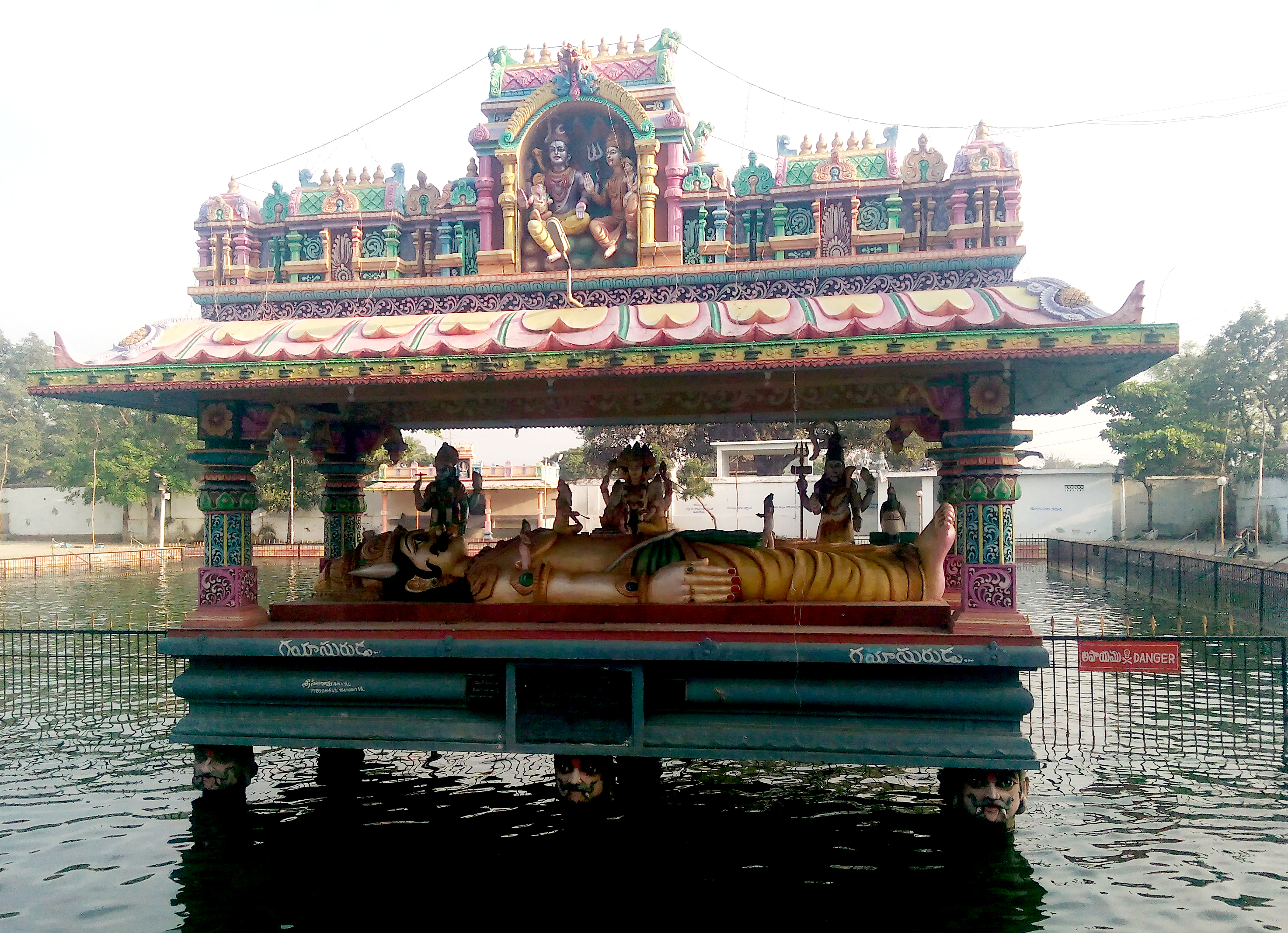 Padhagaya kshetram - Pithapuram - Eastgodavari District of A.P